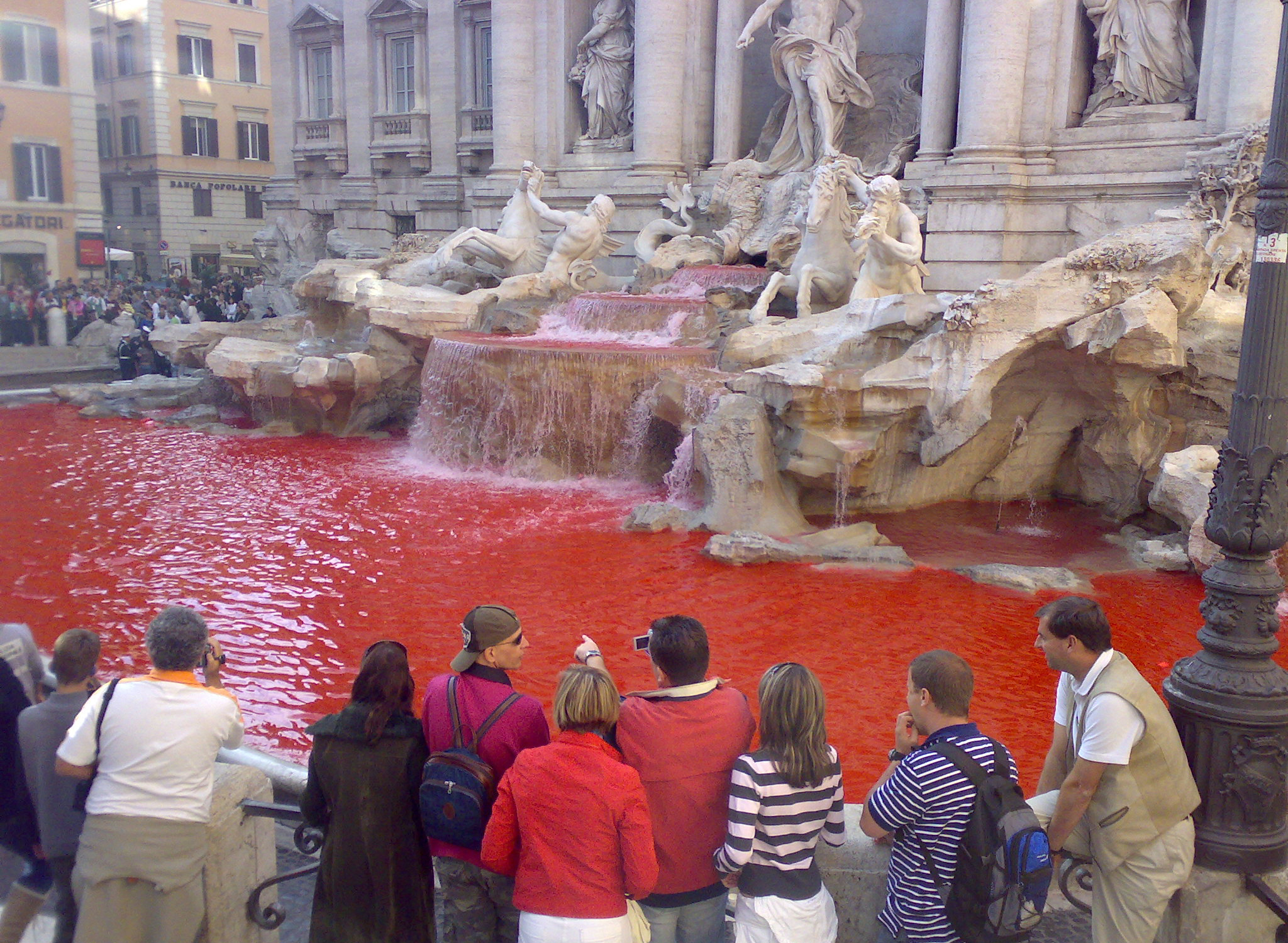 Trevi fountain coloured red due to a vandal who threw red paint in it.